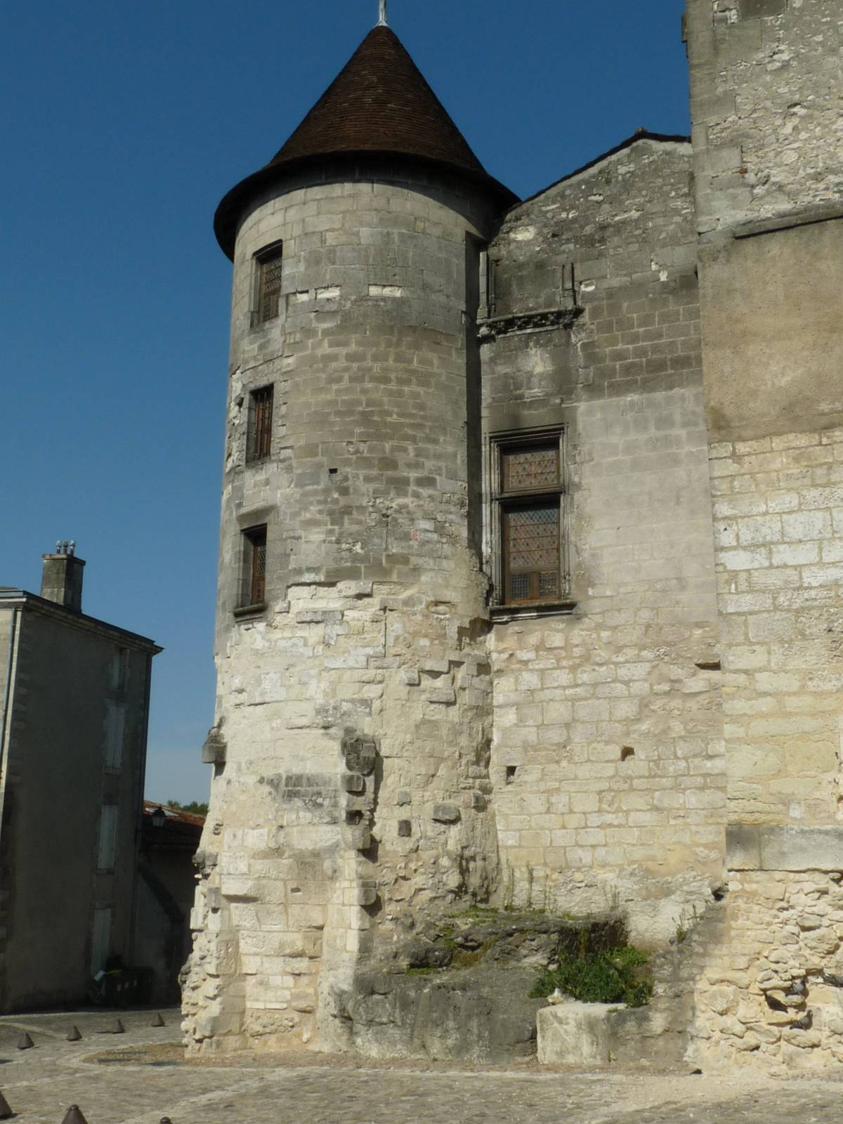 castle of Cognac, Charente, SW France